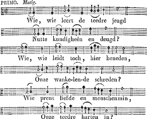 Sheet music from the school songbook: "Gezangen voor de jeugd, ten dienste der scholen" of Gijsbertus van Sandwijk (Purmerend, 1845), p. 28. From this songbook the children's song 'Wie leert de teedre jeugd', about the teacher.